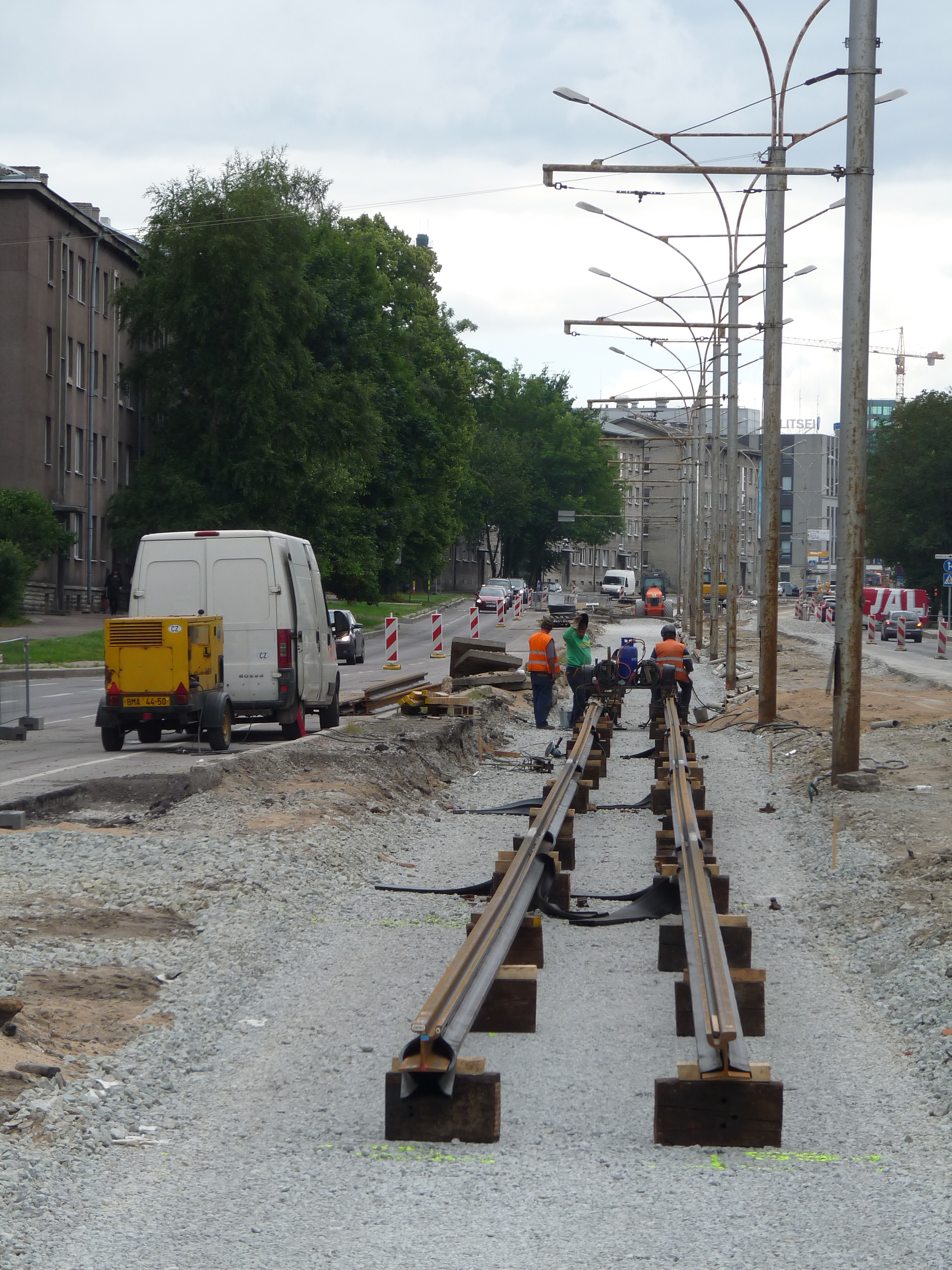 Tram track replacement in Tallinn, Estonia